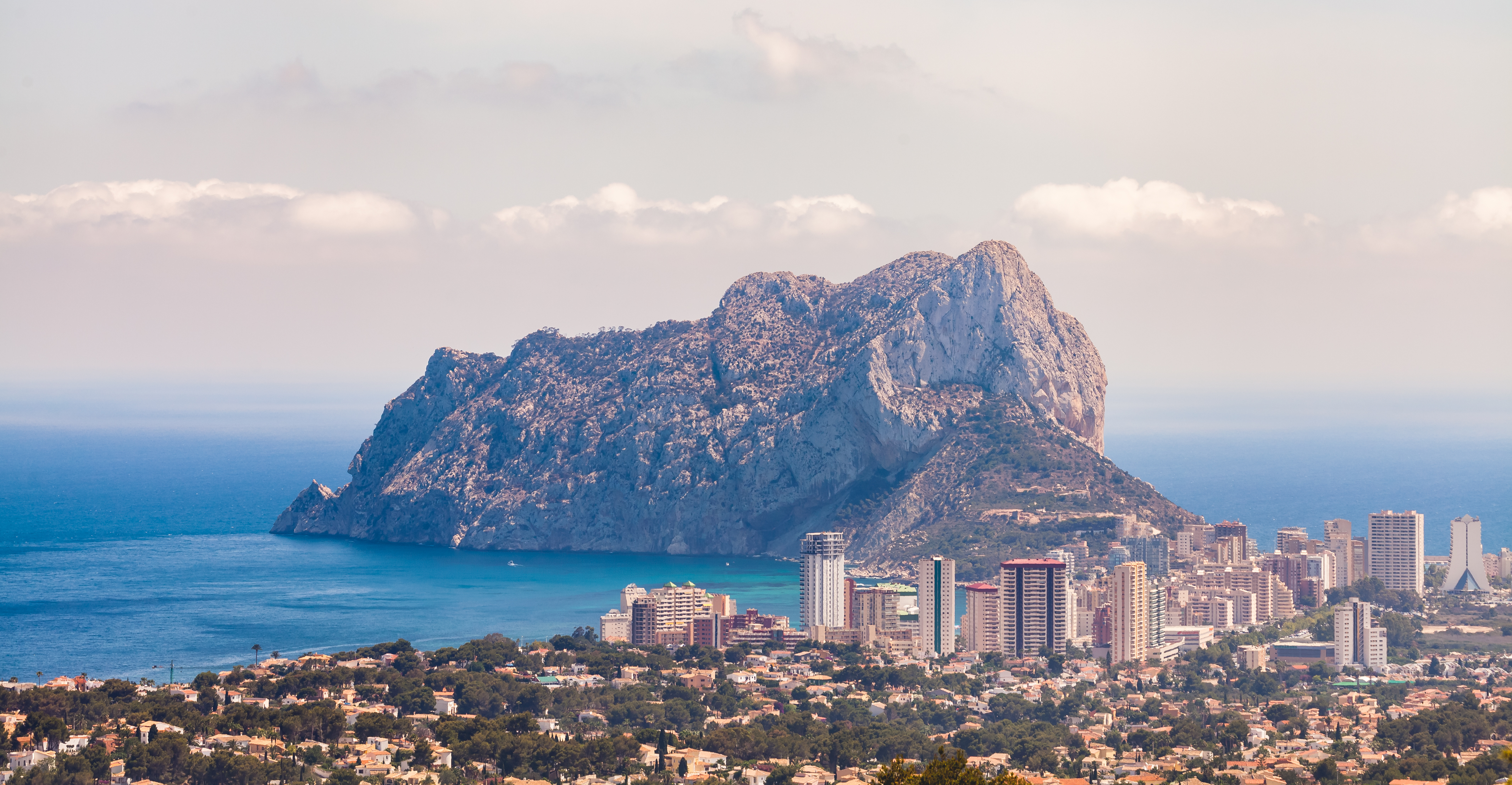 Rock of Ifach, Calpe, Spain